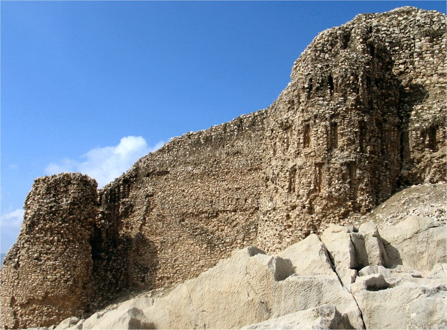 Fortress of the Virgin Bishapour Iran